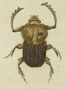 Onitis_humerosus